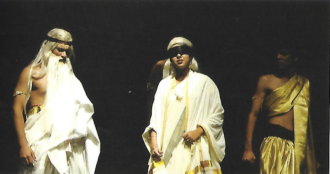 A performance of Andha Yug by Dharamvir Bharati at The Doon School in 2010.